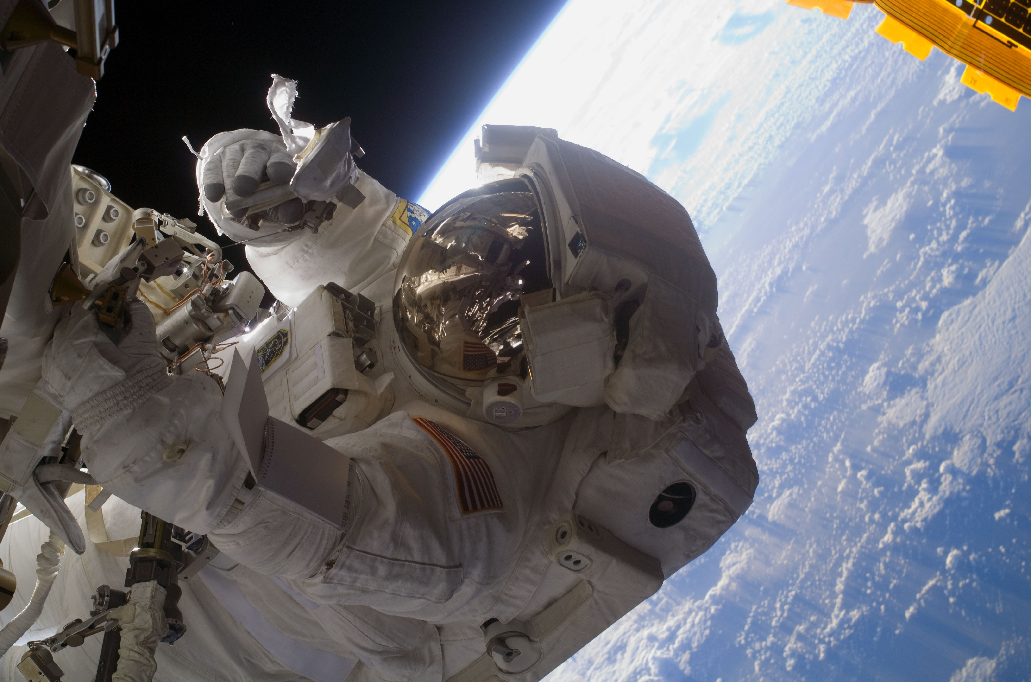 Astronaut Steve Bowen, STS-126 mission specialist, participates in the mission's third scheduled session of extravehicular activity (EVA) as construction and maintenance continue on the International Space Station. During the six-hour, 57-minute spacewalk, Bowen and astronaut Heidemarie Stefanyshyn-Piper (out of frame), mission specialist, focused their efforts on the continued cleaning of the station's starboard solar alpha rotary joint (SARJ) and the removal and replacement of trundle bearing assemblies (TBA). Bowen and Piper also cleaned the area around the SARJ's drive lock assemblies, which help the joint to rotate and lock into place. Earth's horizon and the blackness of space provide the backdrop for the scene.